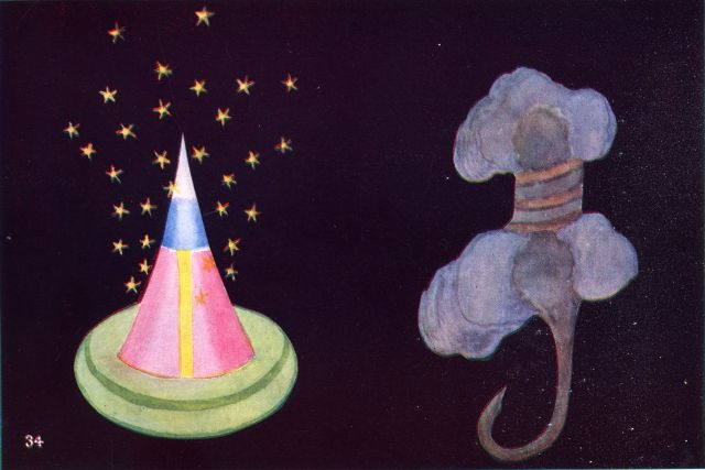 A thought form from Thought-Forms, by Annie Besant & C.W. Leadbeater.